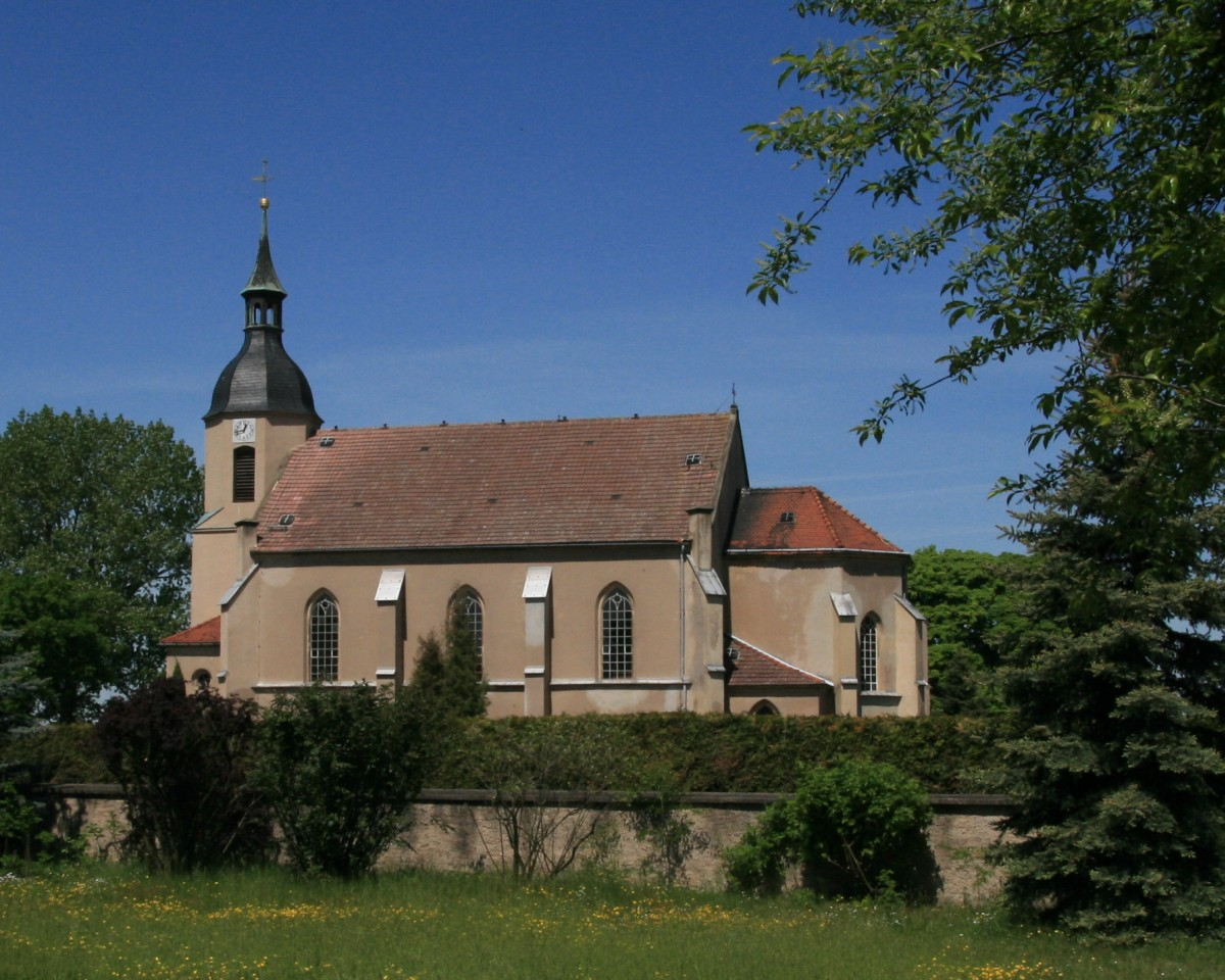 Church of Oelsnitz-Niegroda